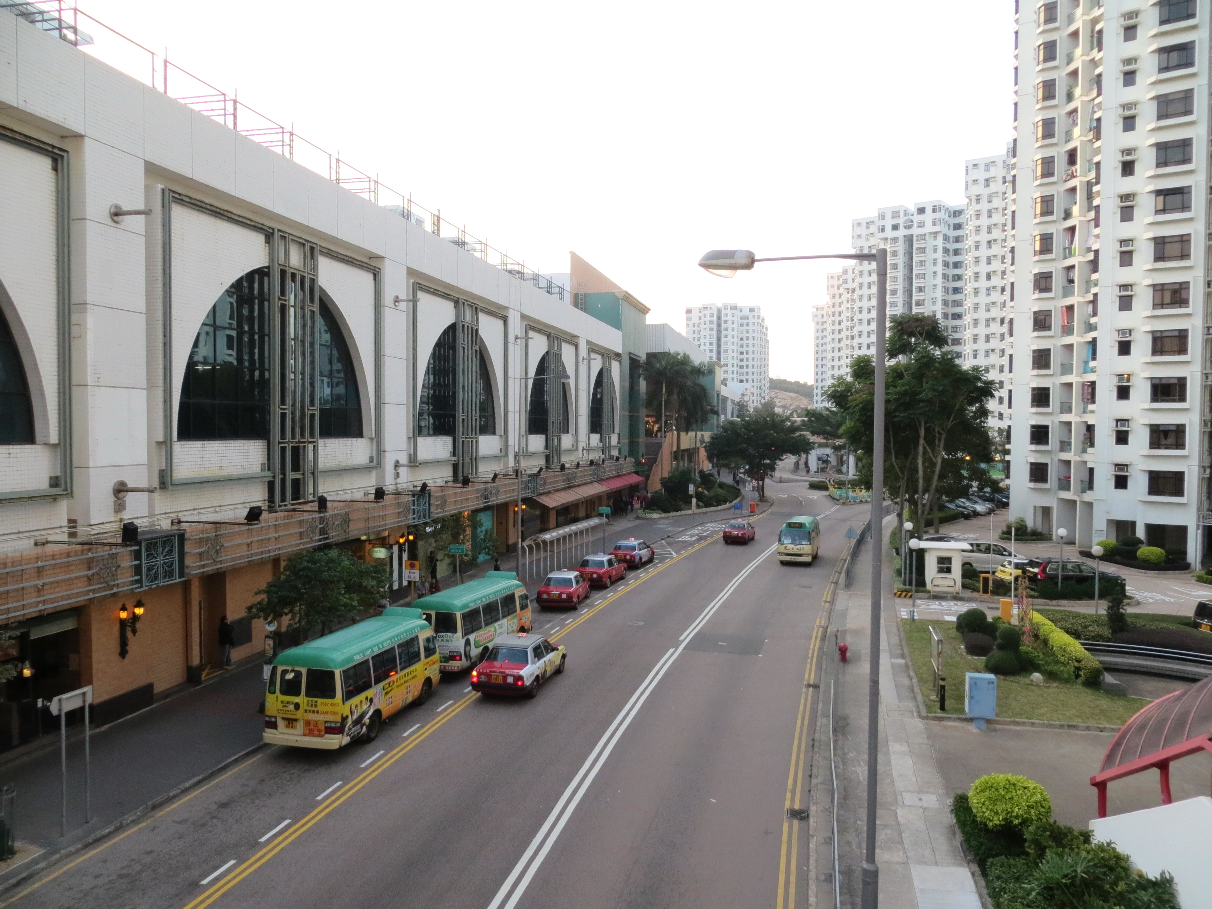 Shing Tai Road near the Paradise Mall, Heng Fa Chuen, Chai Wan, Hong Kong.